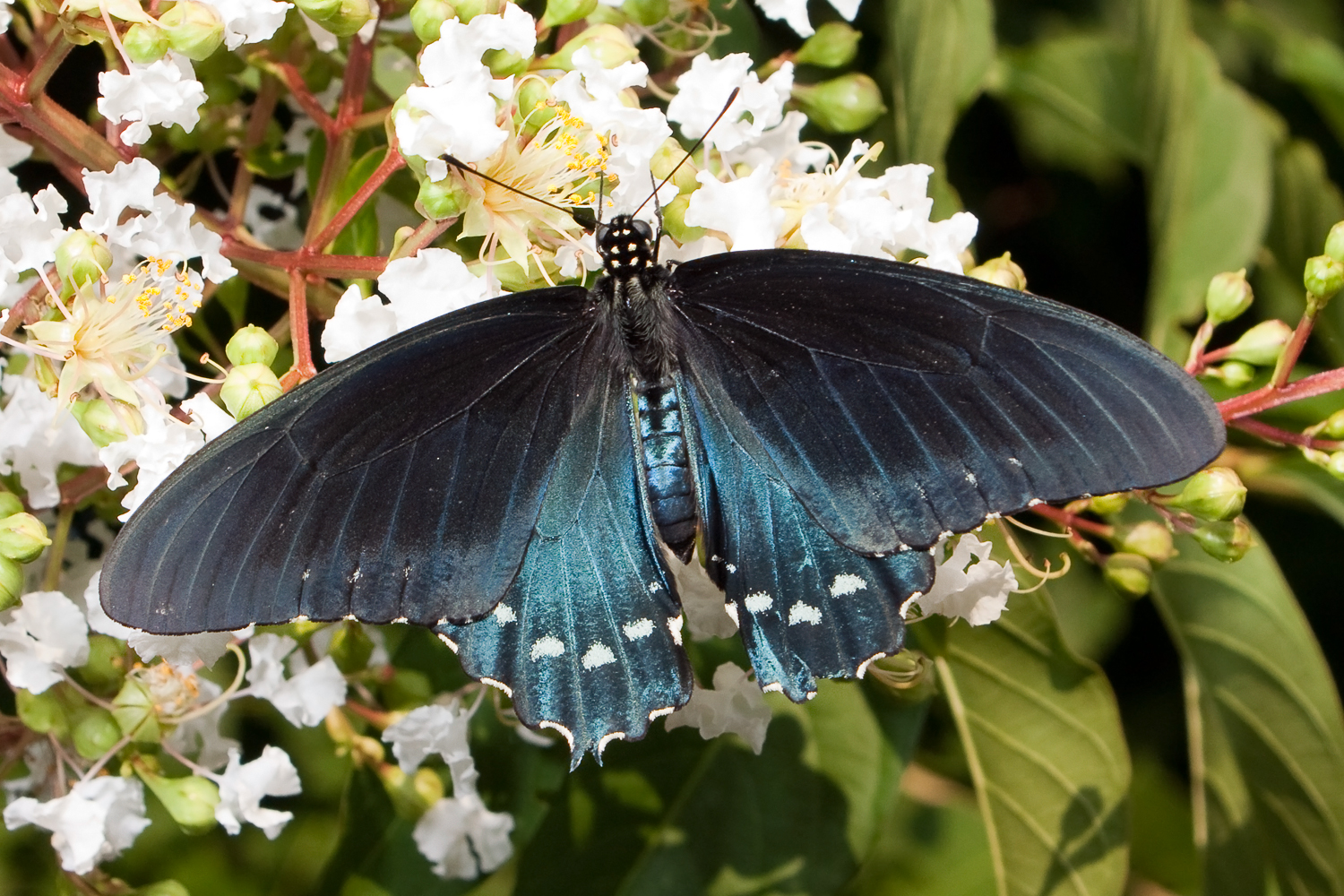 Pipevine Swallowtail (Battus philenor) in Nashville, Tennessee